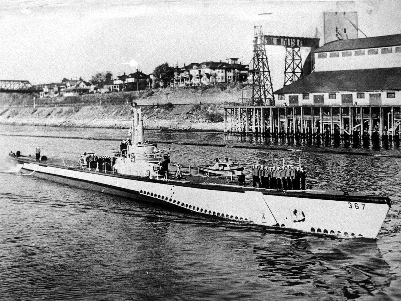 USS_Icefish; Icefish (SS-367) Portland, Oregon September, 1945. USN photo courtesy of .